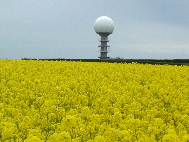 Radio/Listening Station Close to Lincolnshire's highest point.